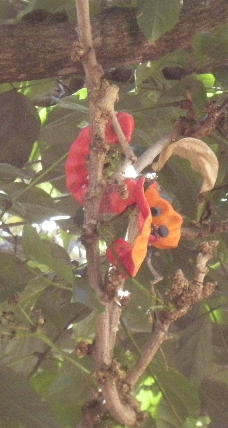 Archidendron lucyii seed pods